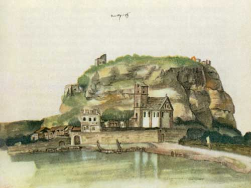 Watercolour of Trento